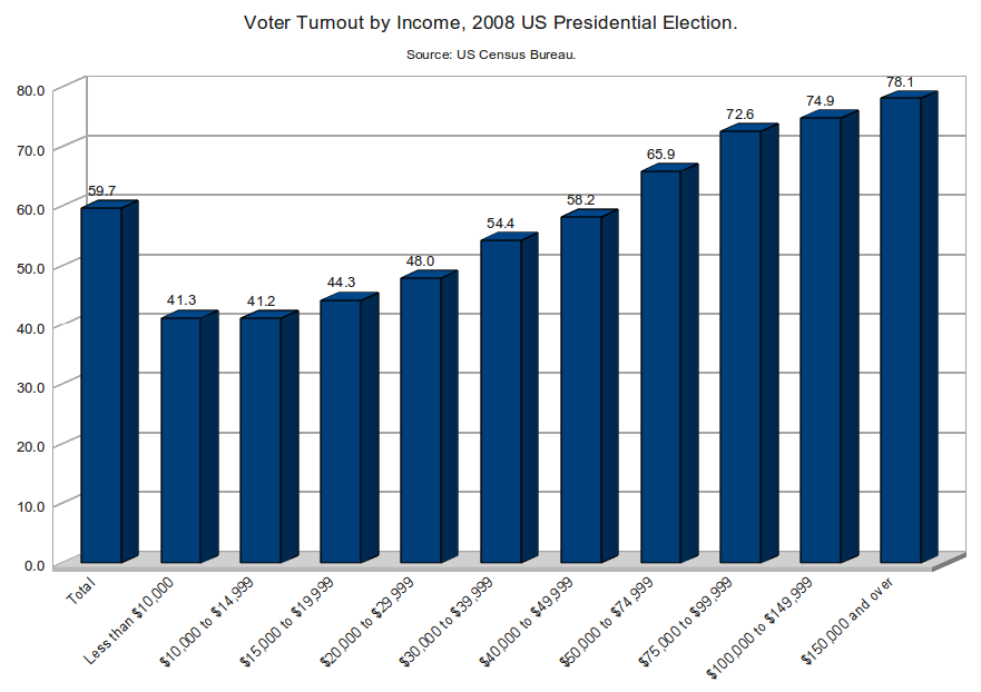 This is a figure illustrating the different rates of voting in the 2008 U.S. Presidential Election by income. The data come from the U.S. Census Bureau.